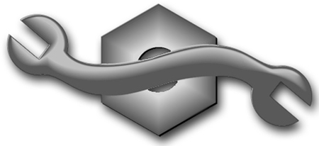 US Navy Construction Mechanic (CM). Double-headed wrench superimposed on a nut.